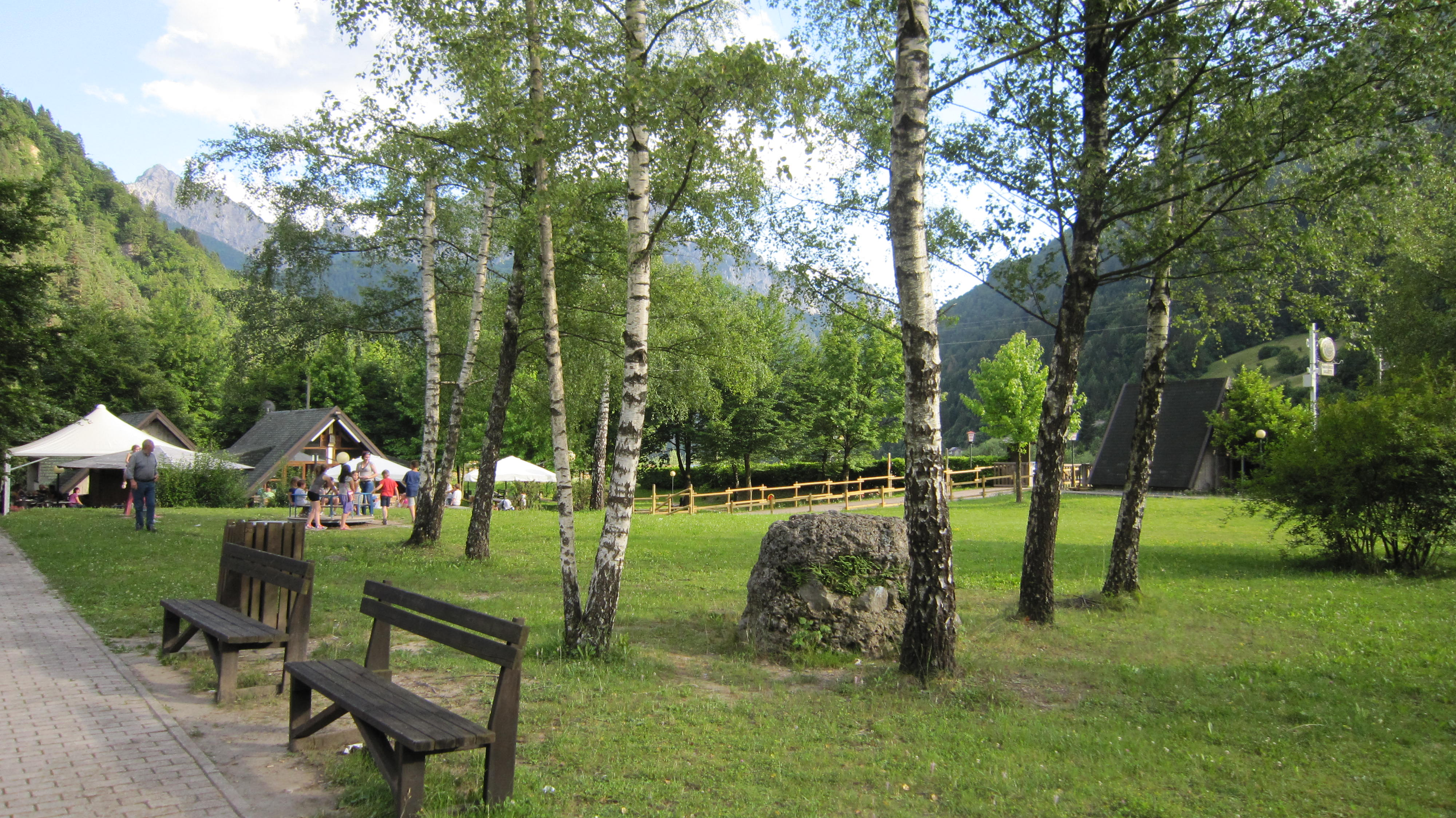 paularo saletti parco giorchi